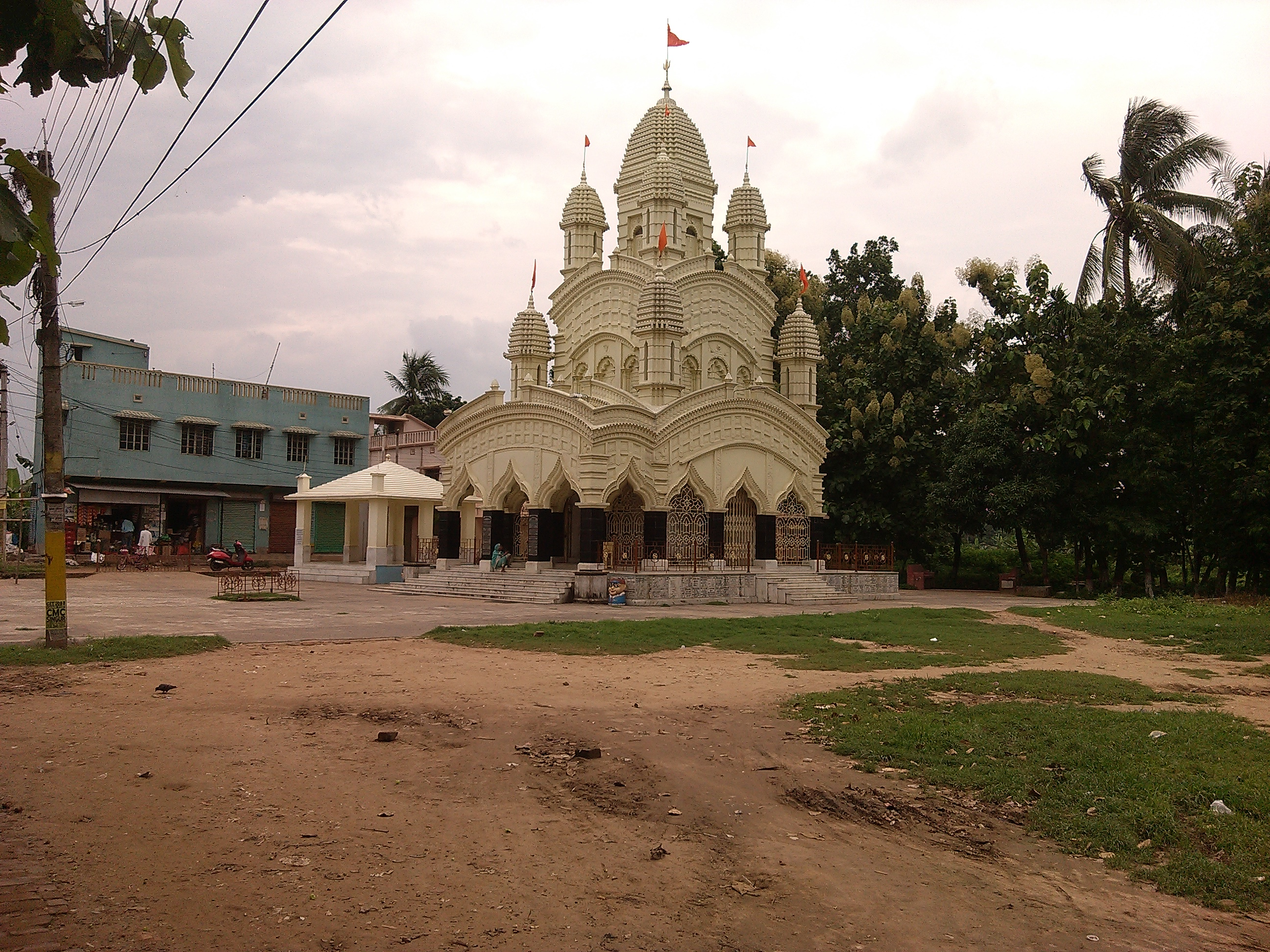 Kali Temple in hooghly district , Aamadamoi kali Ma temple.